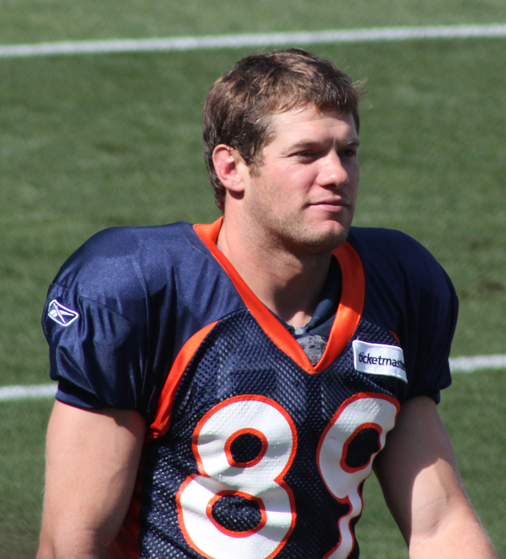 David Anderson, a National Football League player.